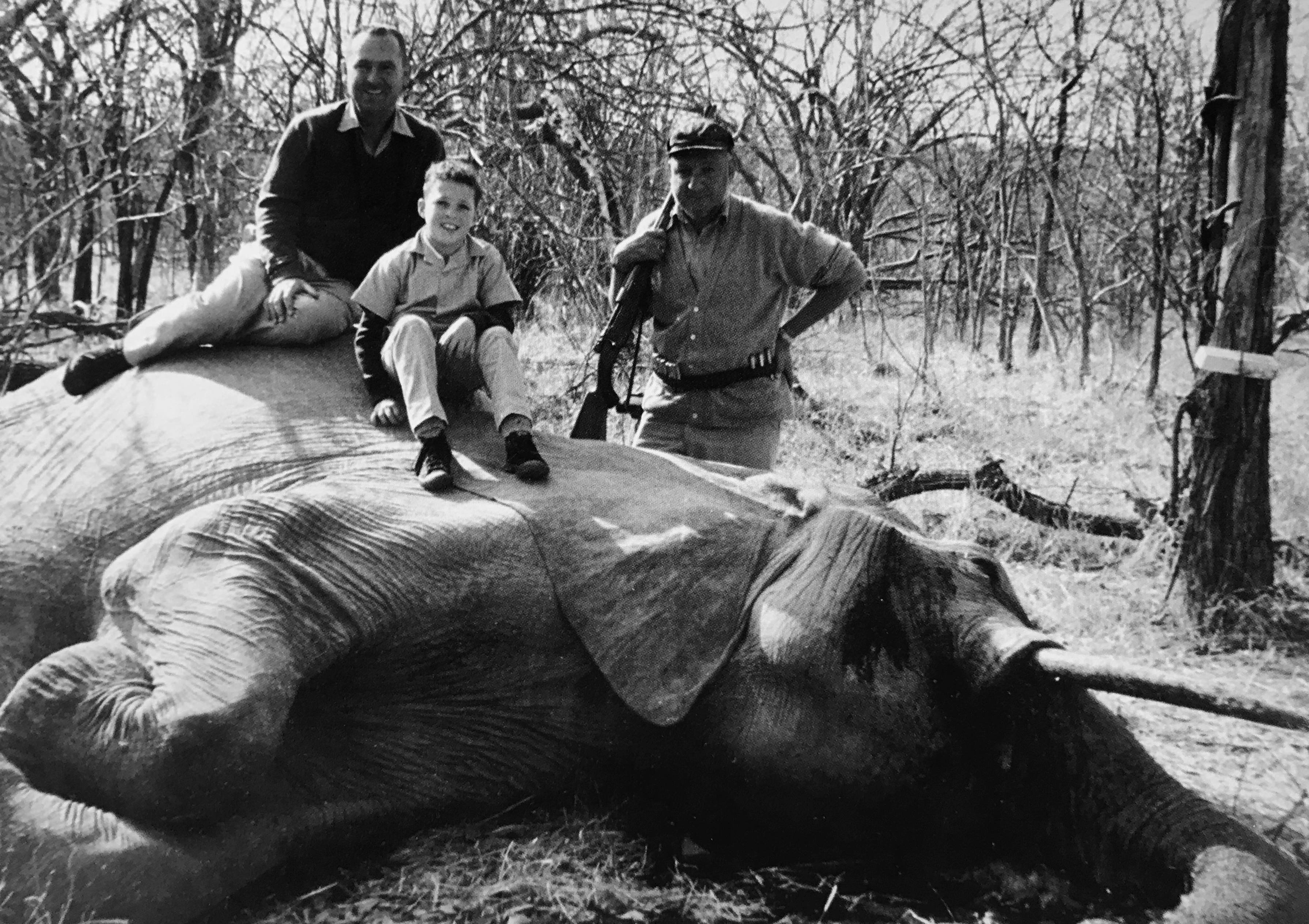 Alfonso de Urquijo y Landecho (left), Leslie de Soussa (middle) and Fernando (Timo) Fitz-James Stuart y Saavedra (right) 19th Duke of Peñaranda de Duero during a Safari in Bamboosi, Mozambique, 2 September 1962.